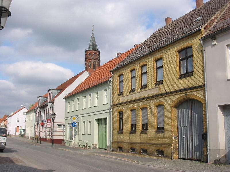 Großstraße (Main street) in Niemegk. The town Niemegk is a part of the Potsdam Mittelmark, state Brandenburg, Germany.